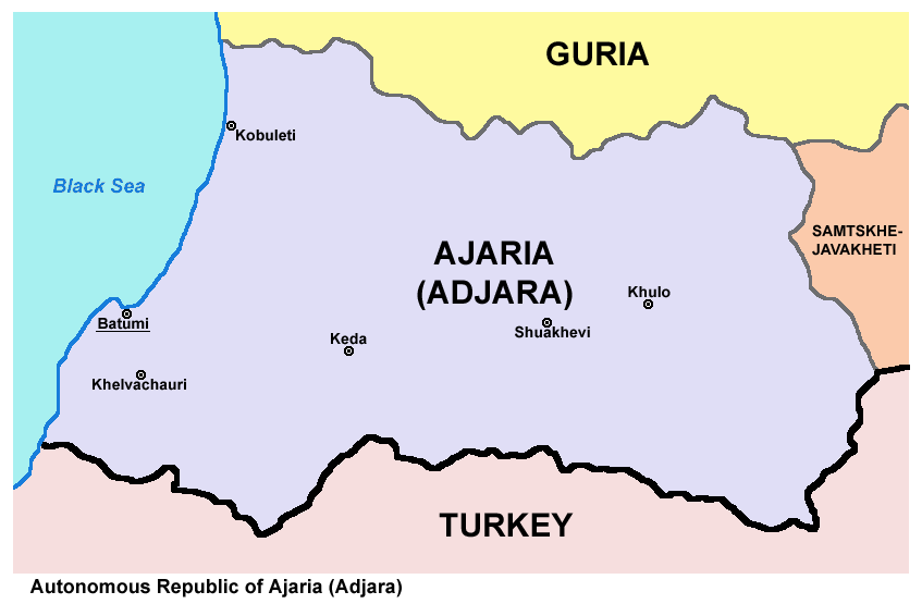 Map of Ajaria (Adjara) republic, Georgia.